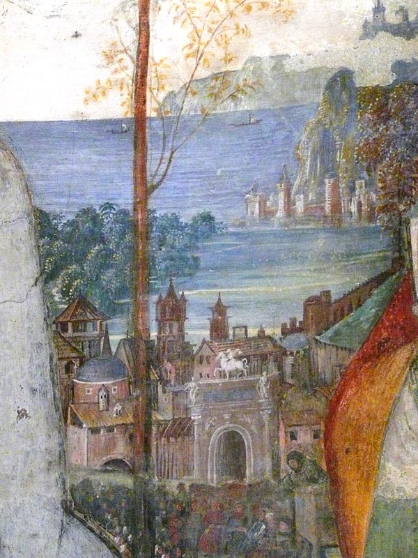 Duomo di Spoleto, Fresco: Pinturicchio - Chapel of the Bishop of Eroli: Virgen Mary and Child - detail of the landscape